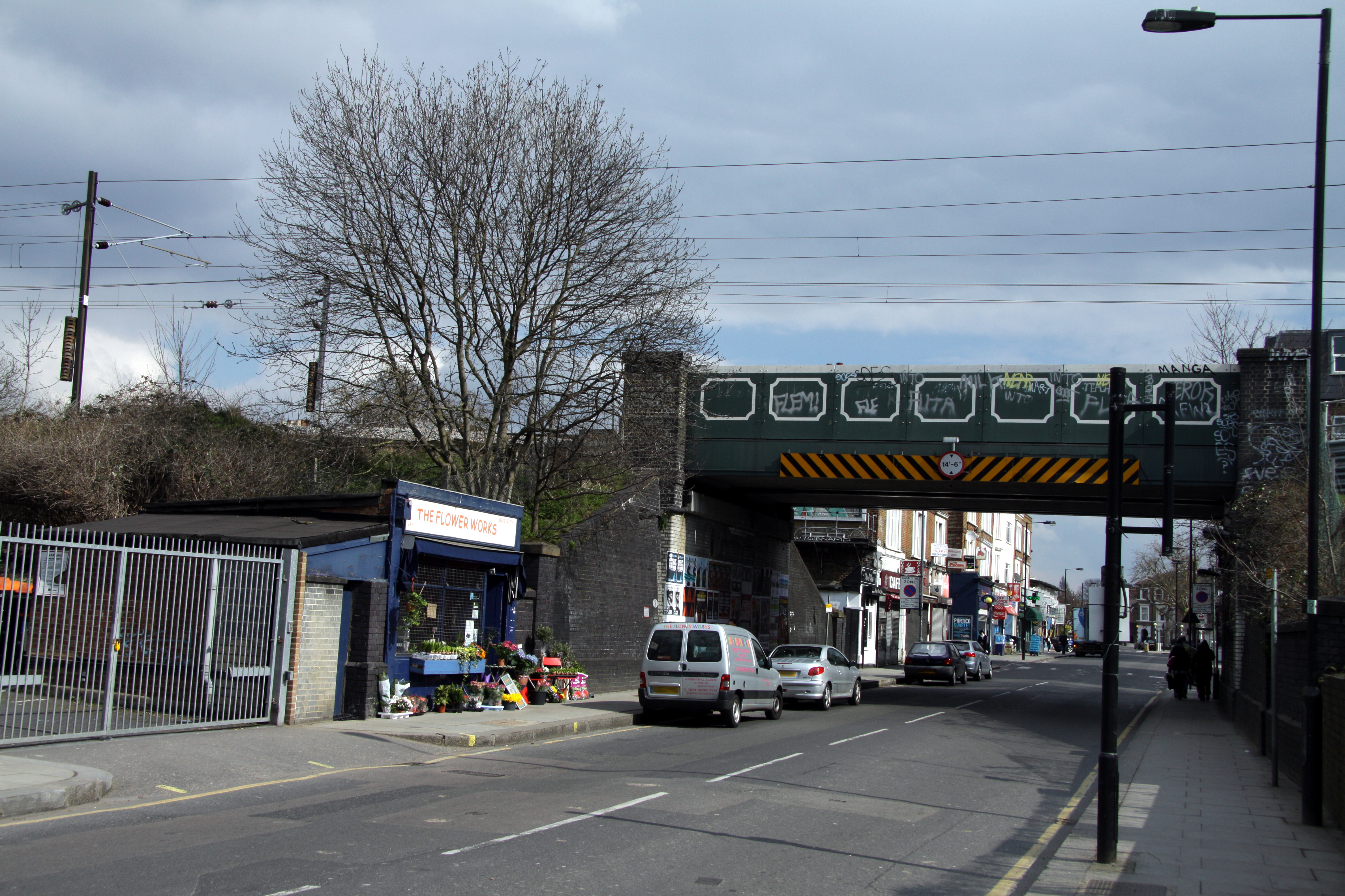 Railway bridge over North Pole road in London, England, Great Britain. The railway line passing over this bridge is the West London Line between Willesden Junction and Shepherd's Bush stations (left to right is north to south). To the left of the picture is the site of the former St. Quintin Park and Wormwood Scrubs railway station which was closed in 1940.